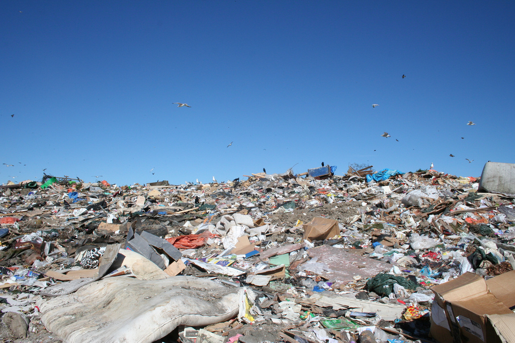 Waste landfill Jardim Gramacho near Rio de Janeiro